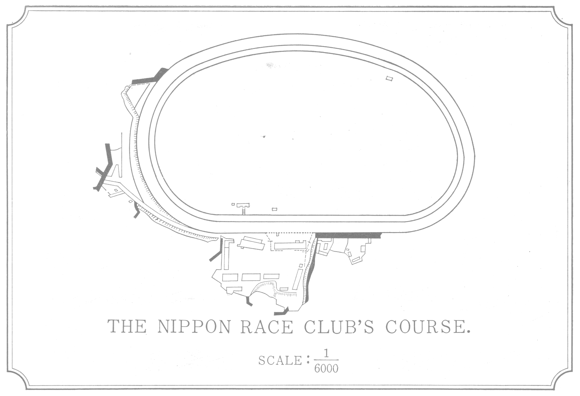 Plan view of The Yokohama Racecourse (1911-1912)